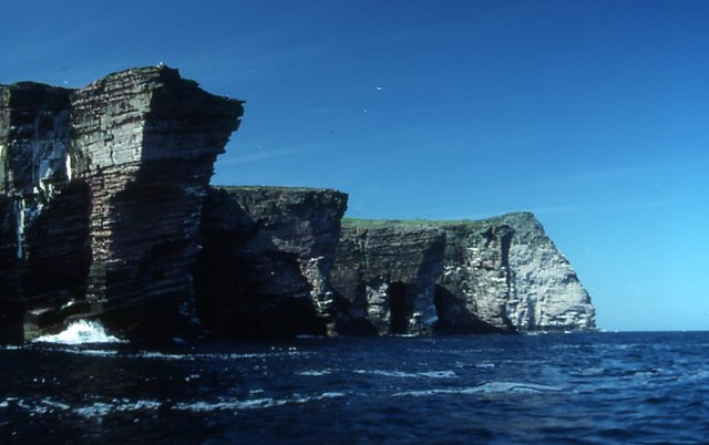 Holm of Noss cliffs on Isle of Noss, Shetland, Scotland